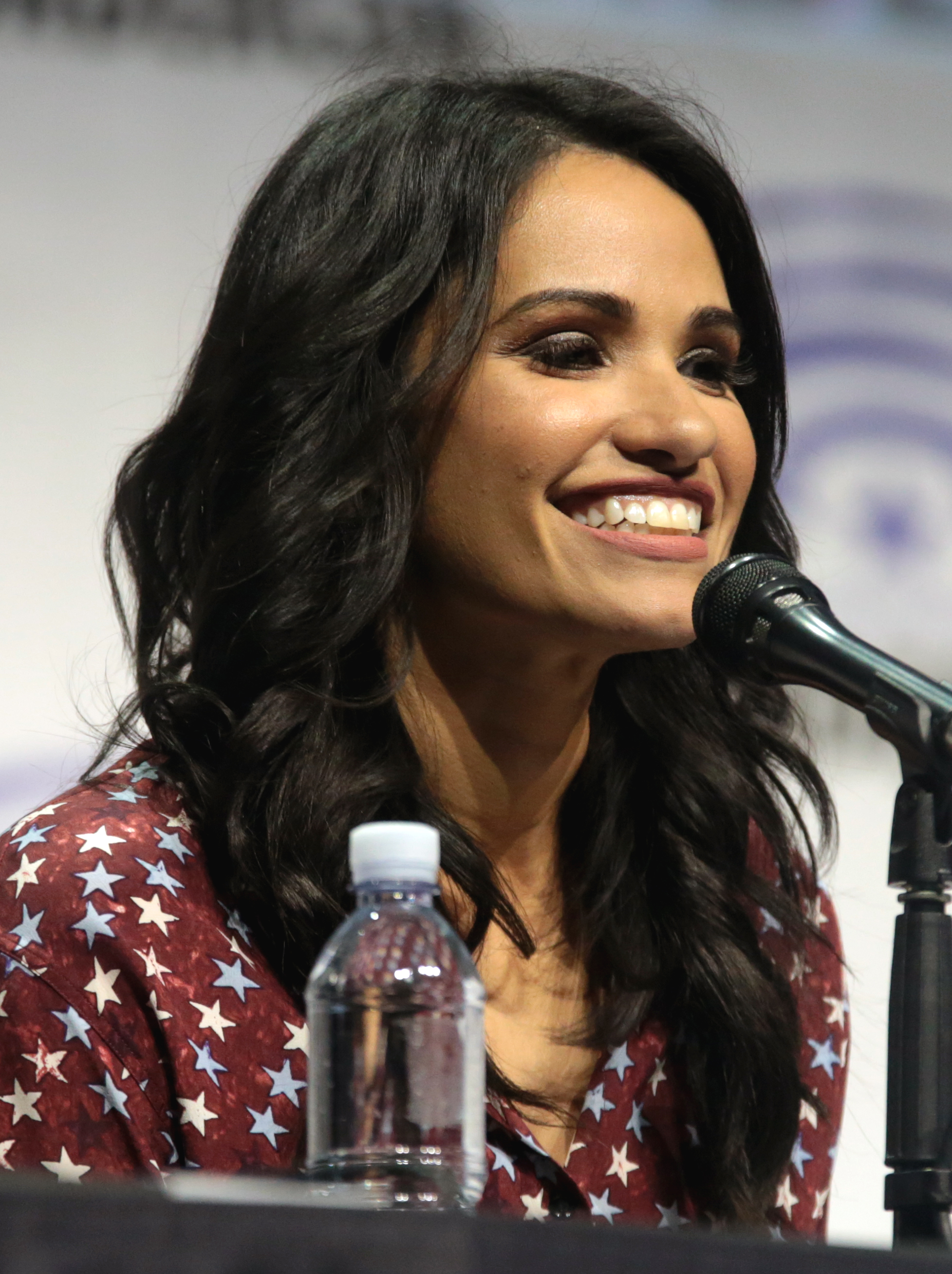 Tiffany Smith speaking at the 2017 WonderCon in Anaheim, California.